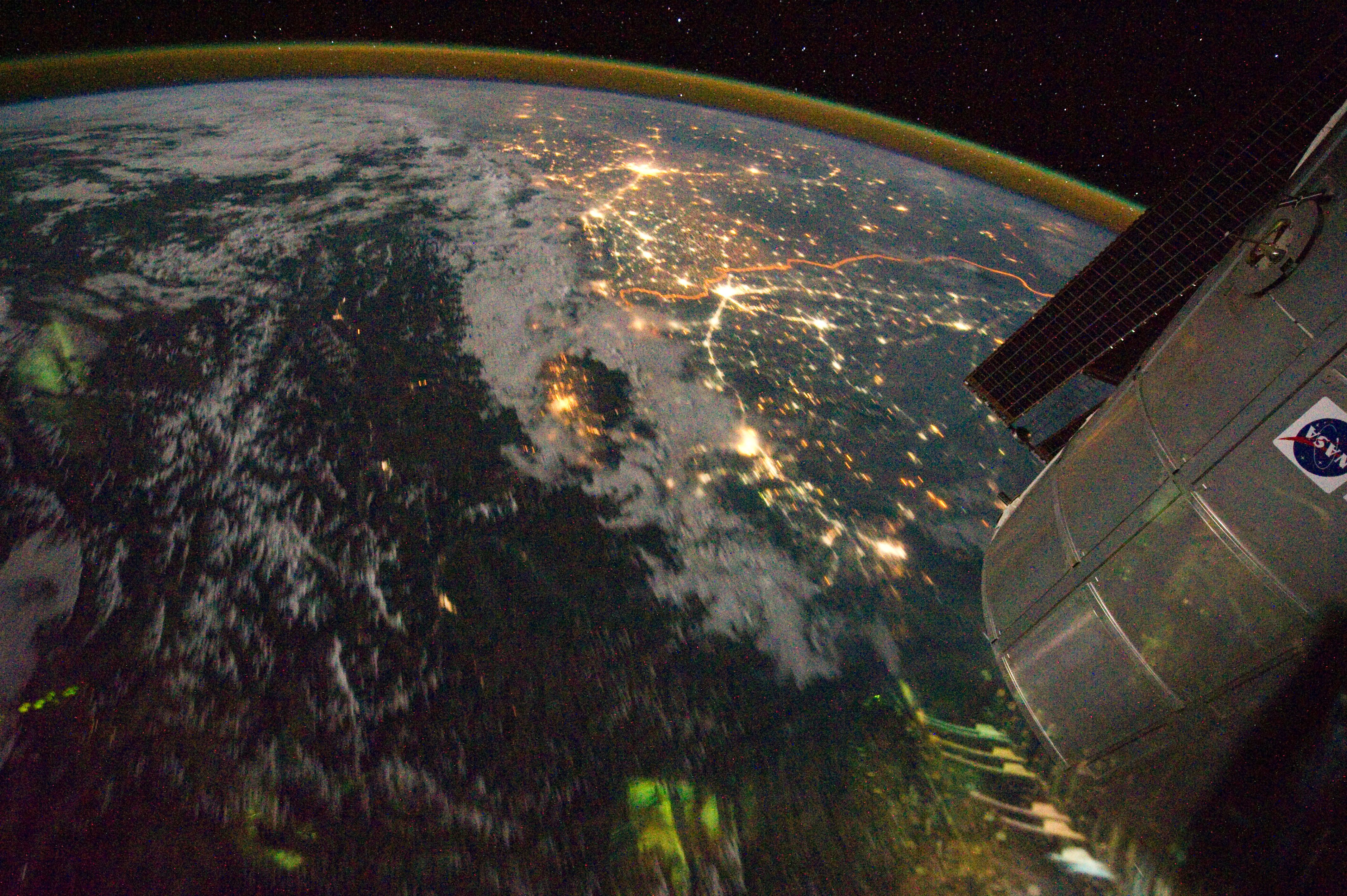 Clusters of yellow lights on the Indo-Gangetic Plain reveal numerous cities large and small in this astronaut photograph of northern India and northern Pakistan. Of the hundreds of clusters, the largest are the capital cities of Islamabad, Pakistan, and New Delhi, India. (For scale, these metropolitan areas are approximately 700 kilometres apart.) The lines of major highways connecting the cities also stand out. More subtle, but still visible at night, are the general outlines of the towering and partly cloud-covered Himalayas to the north (image left). A striking feature is the line of lights, with a distinctly orange hue, snaking across the centre of the image. It appears to be more continuous and brighter than most highways in the view. This is the fenced and floodlit border zone between India and Pakistan. The fence is designed to discourage smuggling and arms trafficking. A similar fenced zone separates India’s eastern border from Bangladesh (not visible). This image was taken with a 16 mm lens, which provides the wide field of view, as the International Space Station (ISS) was tracking towards the south-east across India. The ISS crew took the image as part of a continuous series of frames, each with a one-second exposure time to maximize light collection. Unfortunately, this also causes blurring of some ground features. The distinct, bright zone above the horizon (visible at image top) is air-glow, a phenomena caused by excitation of atoms and molecules high in the atmosphere (above 80 kilometres) by ultraviolet radiation from the Sun. Part of the ISS Permanent Multipurpose Module and a solar panel array are visible at image right.